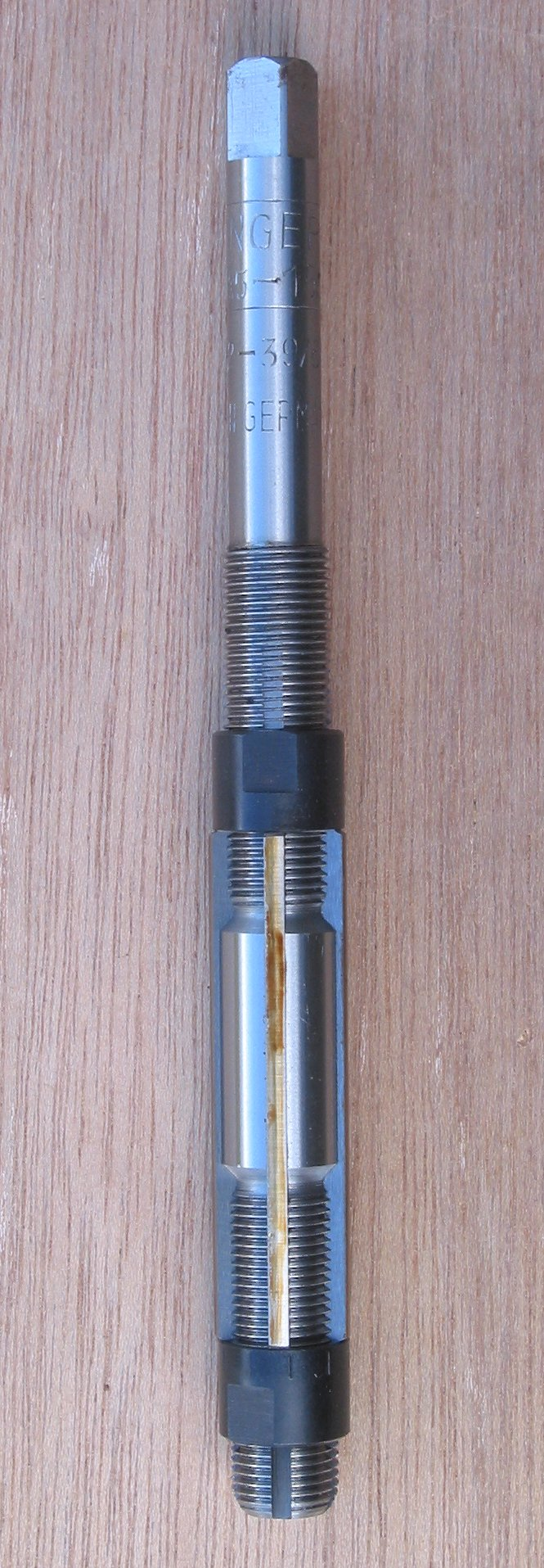 Adjustable hand reamer